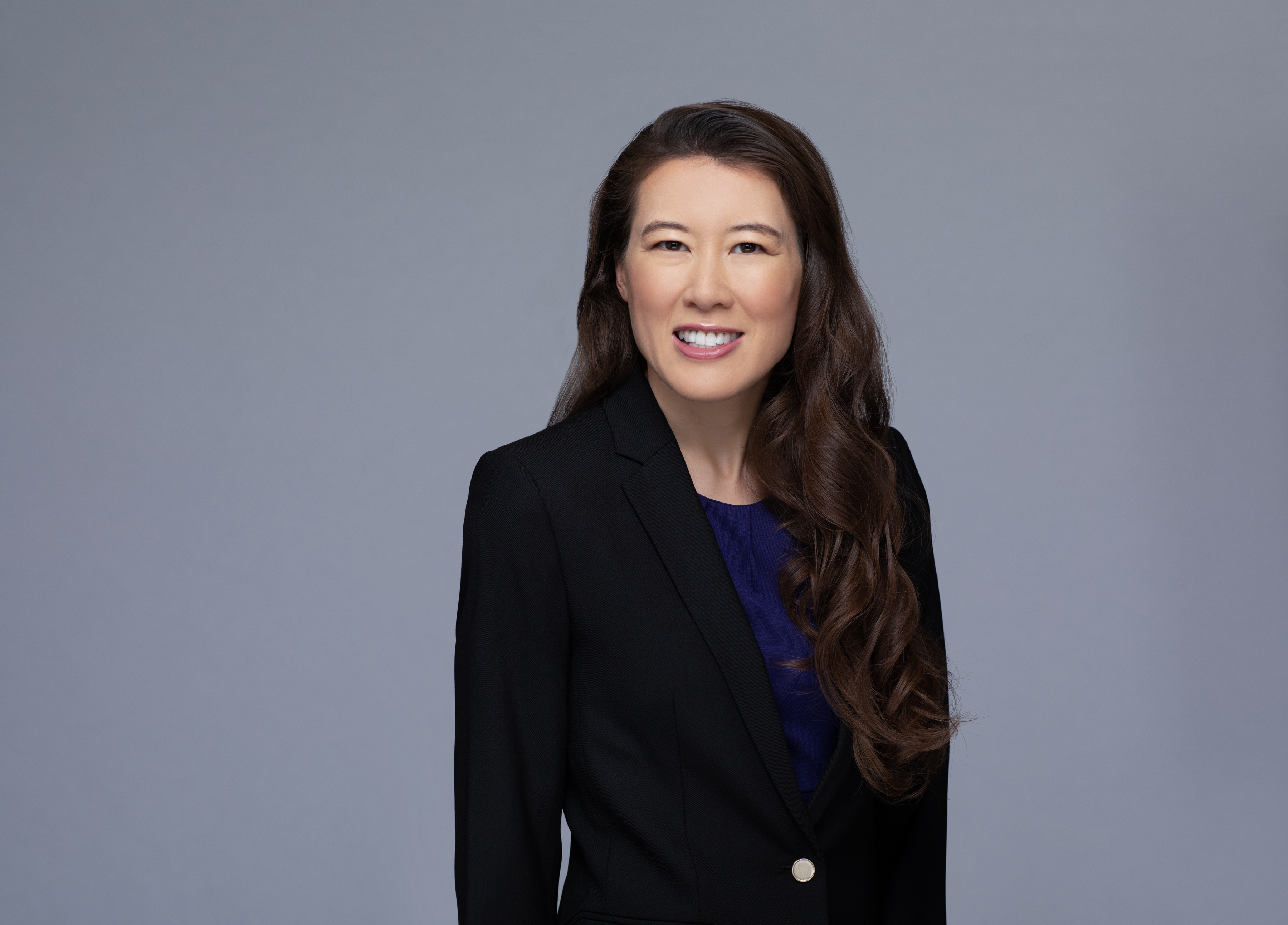 Katherine Aumer social psychology headshot